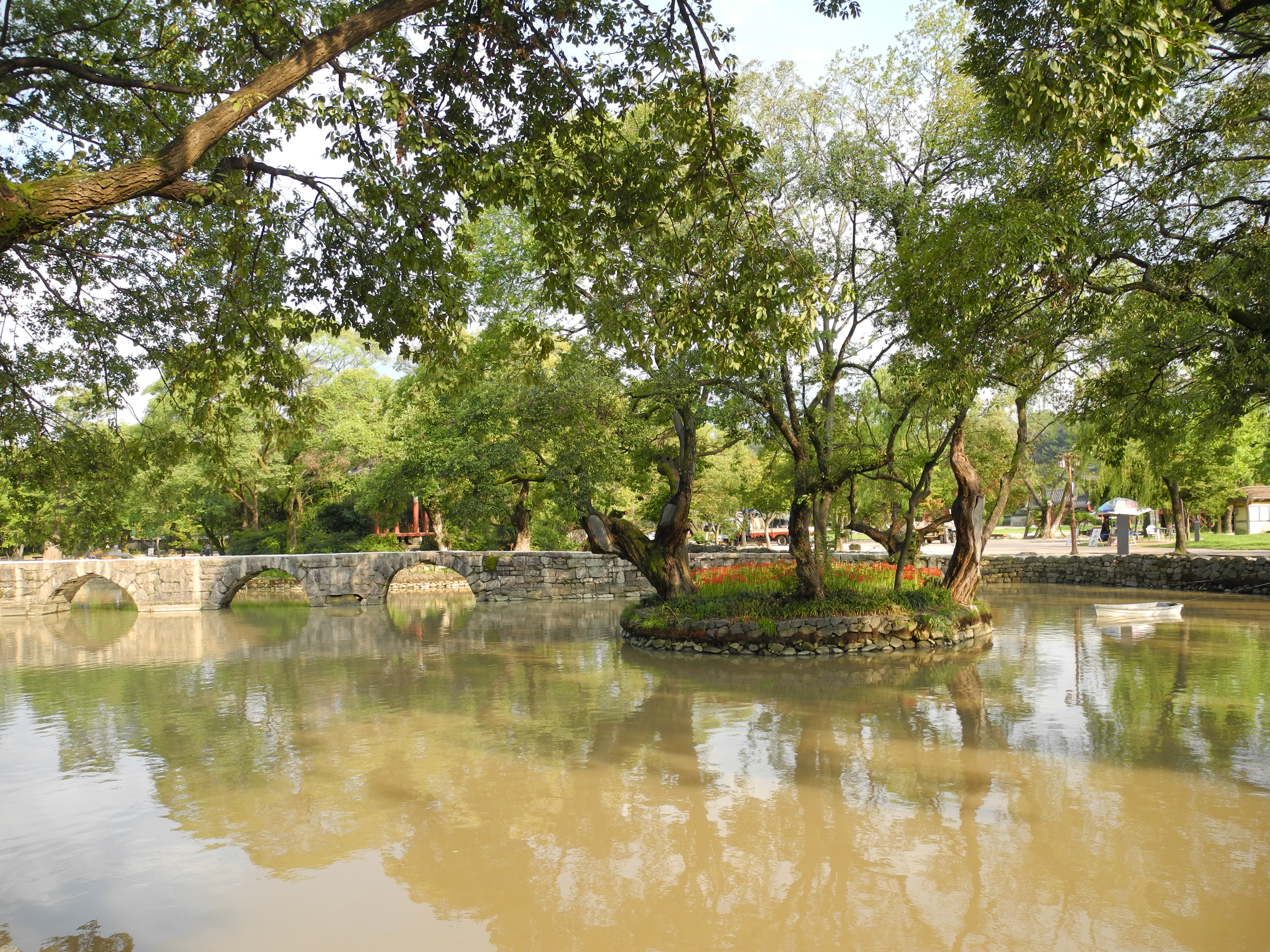 Part of Gwanghallu Garden (Namwon).